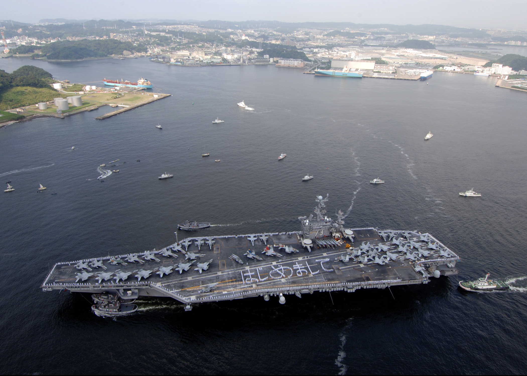 080925-N-9565D-001 YOKOSUKA, Japan (Sept. 25, 2008) Sailors aboard the aircraft carrier USS George Washington (CVN 73) form the phrase "Hajimemashite," which means "Nice to meet you" in Japanese, as they arrive at Fleet Activities Yokosuka, Japan.